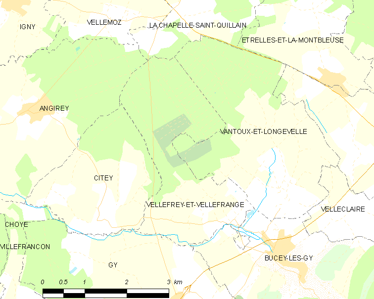 Map of French municipality